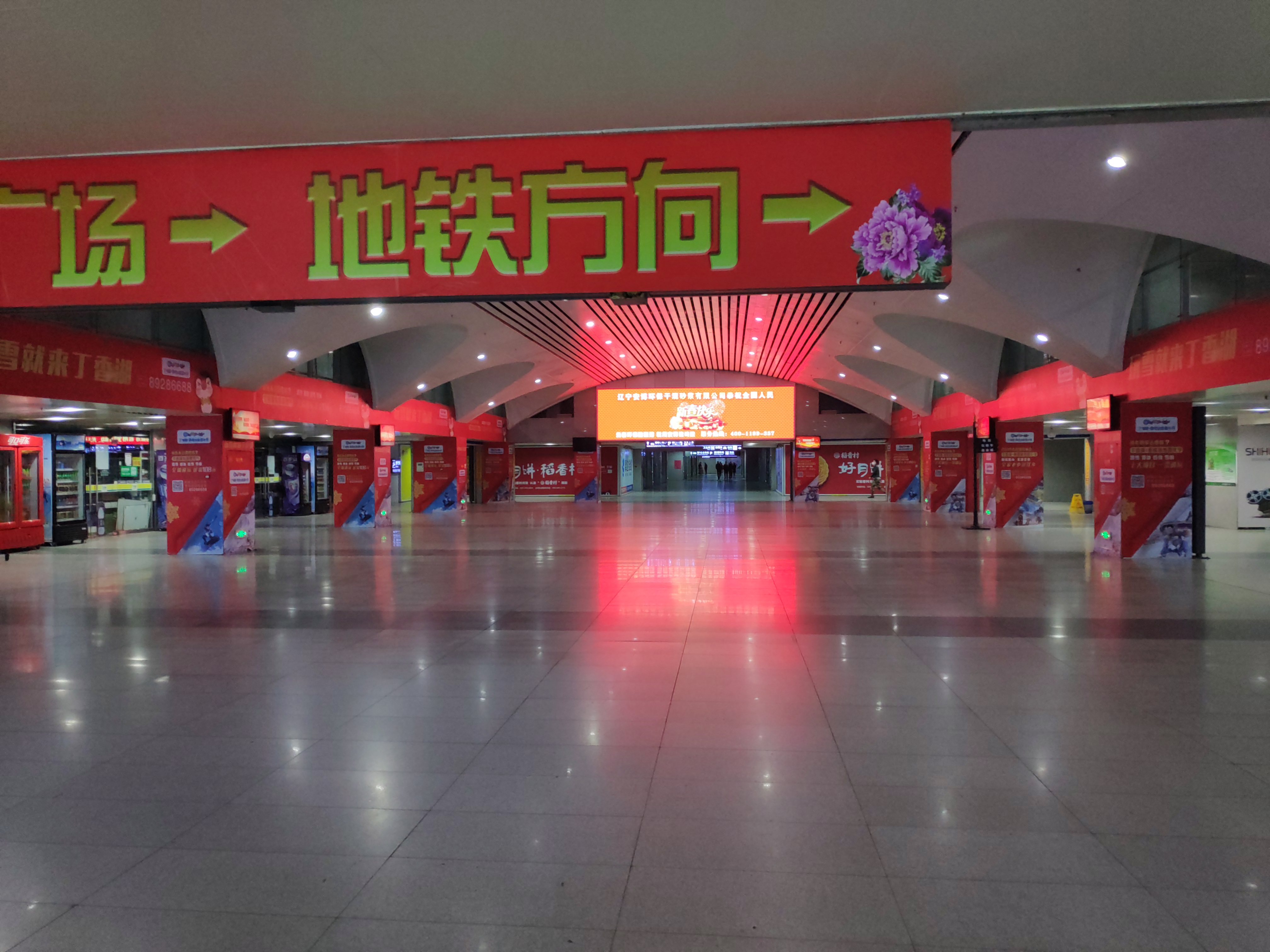 Shenyangbei Railway Station underground pavement at night